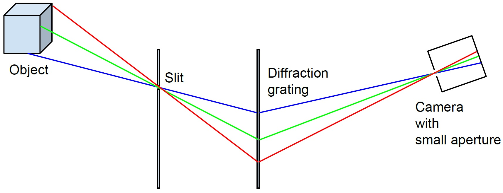 A basic slit spectroscope consists of a slit and a dispersive element, in this case a grating. Spatiospectral scanning is achieved by placing a camera at some non-zero distance behind the grating and moving the camera or the whole spectroscopic system along the direction of dispersion.